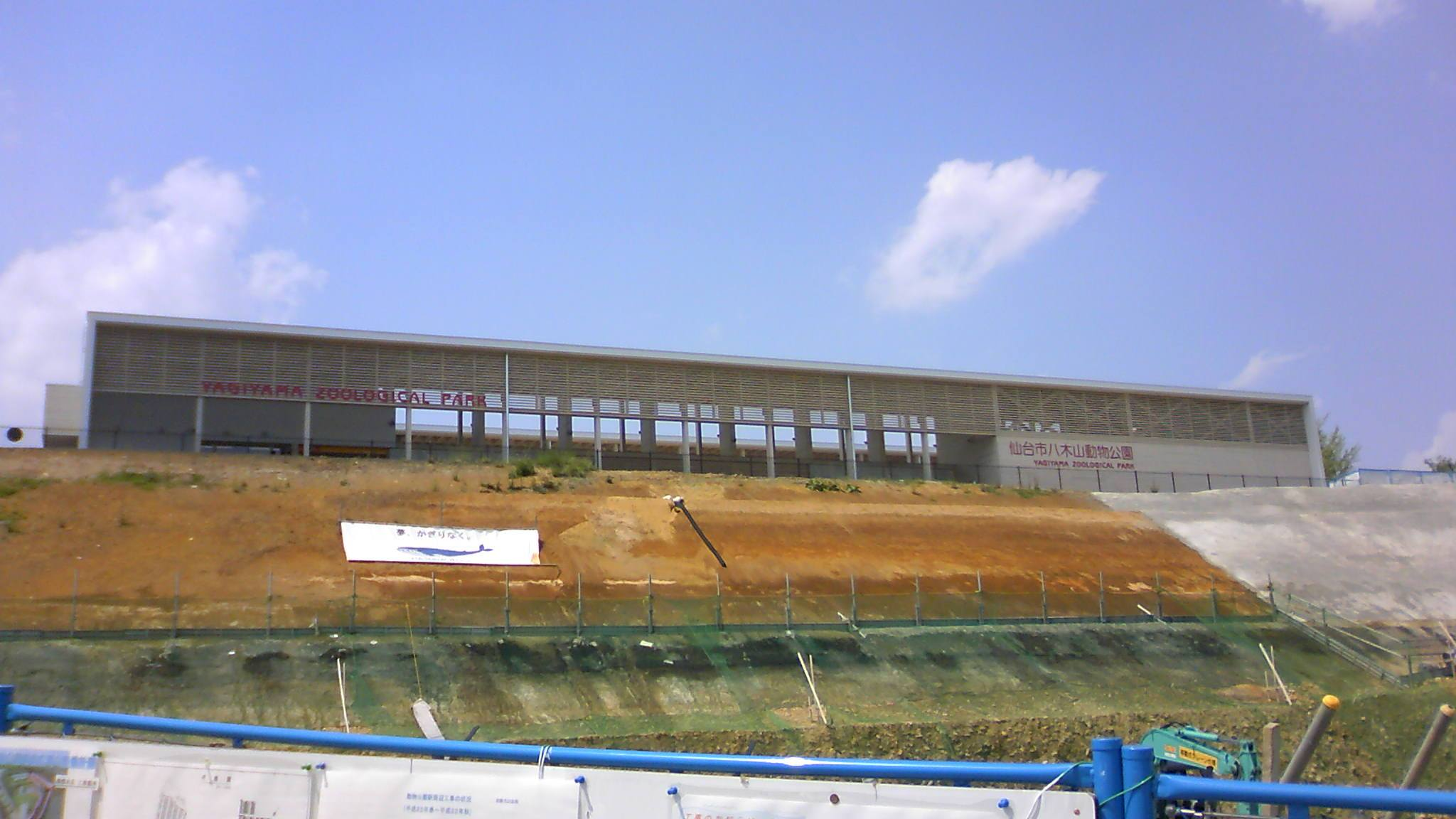 Yagiyama Zoological Park Visitor Centre